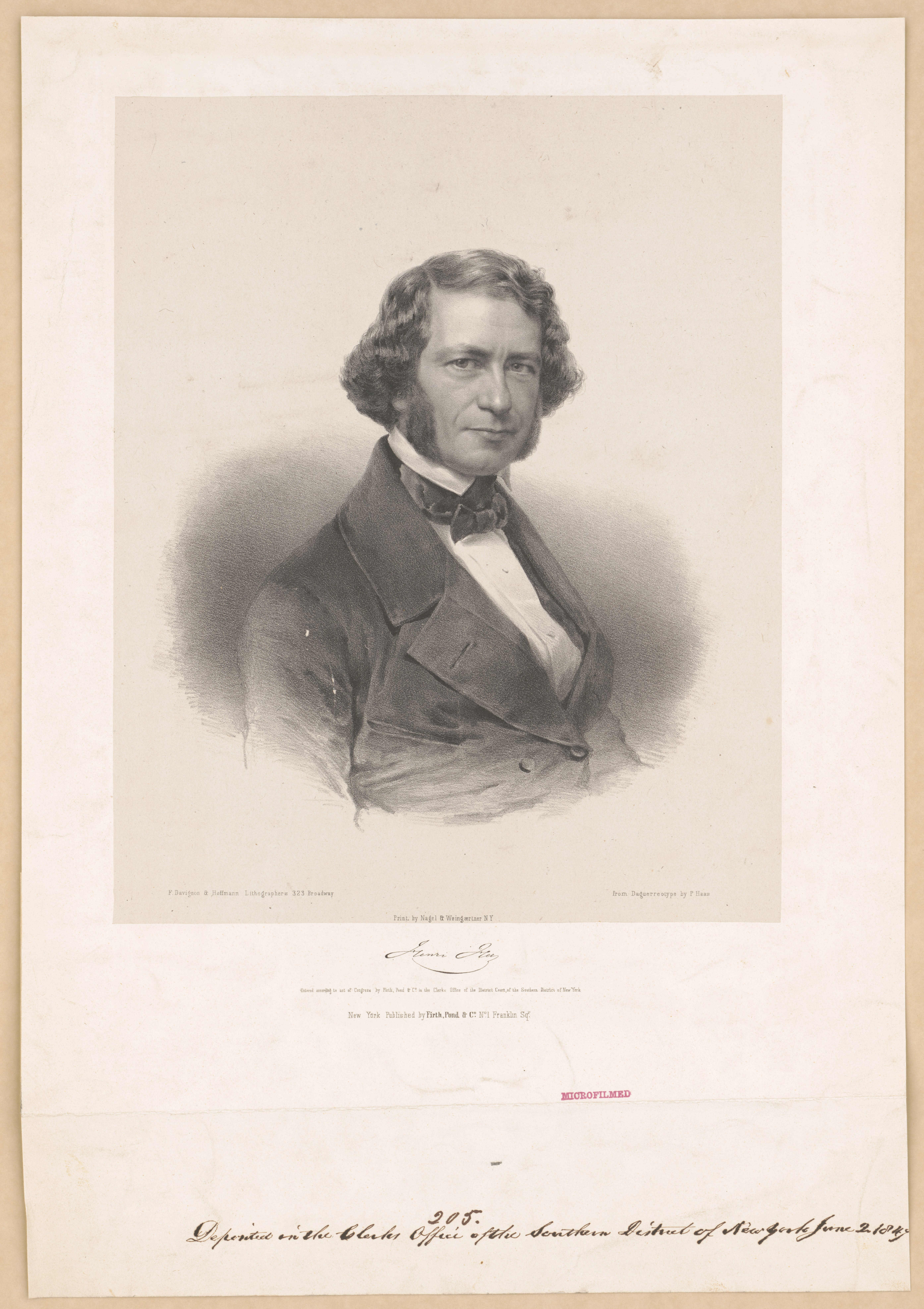 Title: Henri Herz Abstract: Print shows Henri Herz, half-length portrait, seated, facing slightly right. Physical description: 1 print : lithograph, chine collé ; sheet 48.7 x 33.9 cm. Notes: Publication date based on copyright statement on item.; Stamped on verso: L.C. Division of Prints.; F. Davignon & Hoffmann lithographers 323 Broadway ; from daguerreotype by P. Haas.; Title from item (facsimile signature).; Stamped in red on lower right: Microfilmed.; Forms part of: Popular graphic art print filing series (Library of Congress).; Inscribed in ink at bottom: 205. Deposited in the Clerks Office of the Southern District of New York June 2, 1849.